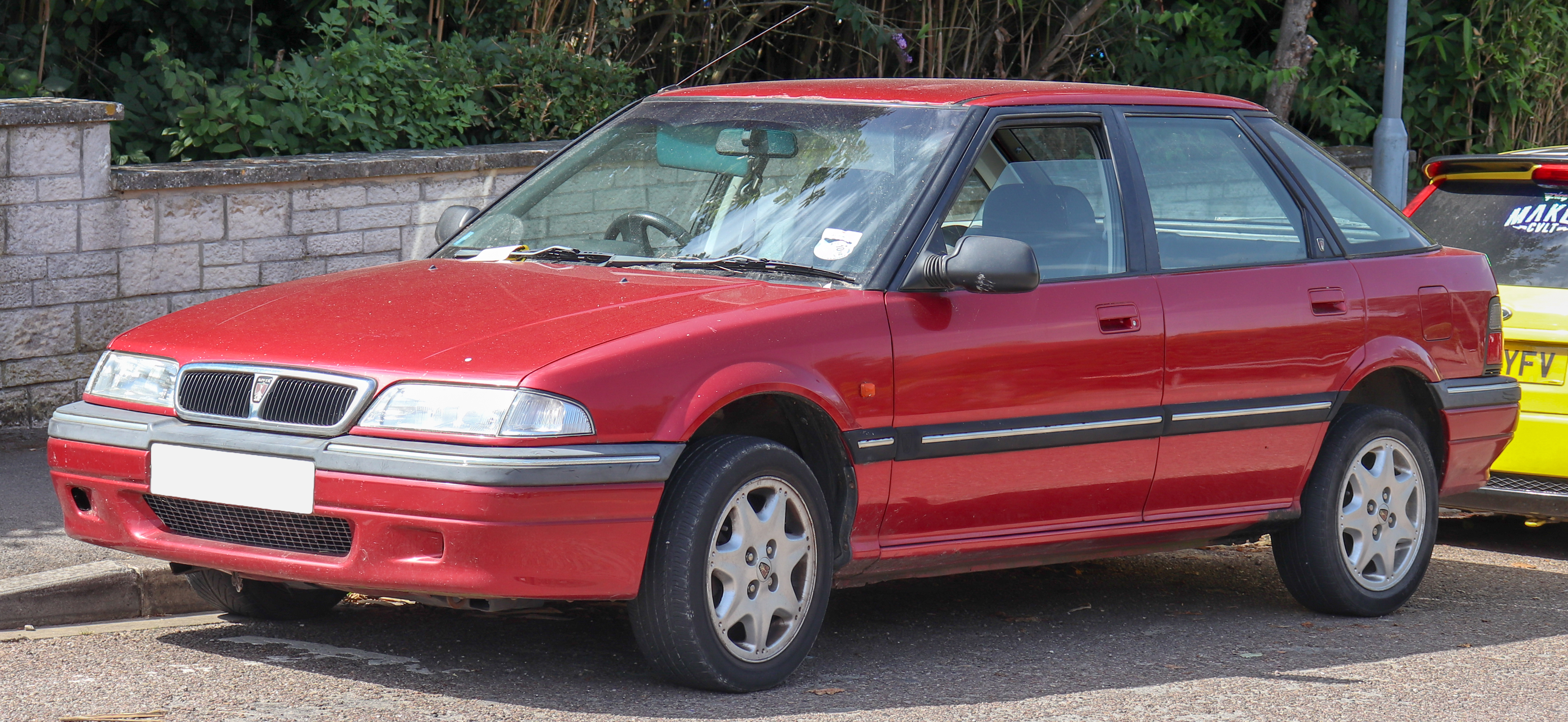 1995 Rover 214 SEi 1.4 Front Taken in Weymouth, Dorset